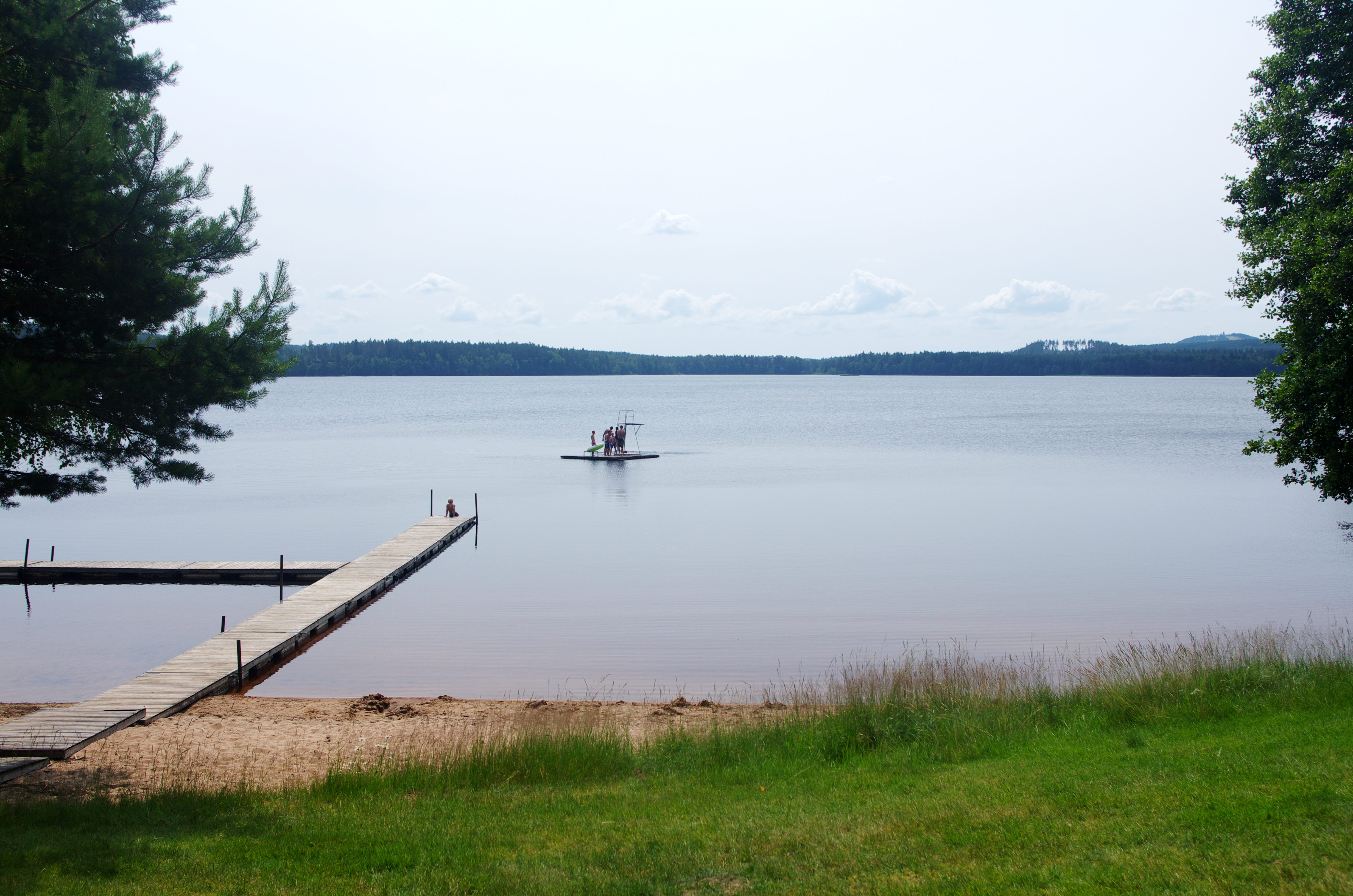 Norra Gussjö: Lake in Småland, Sweden.